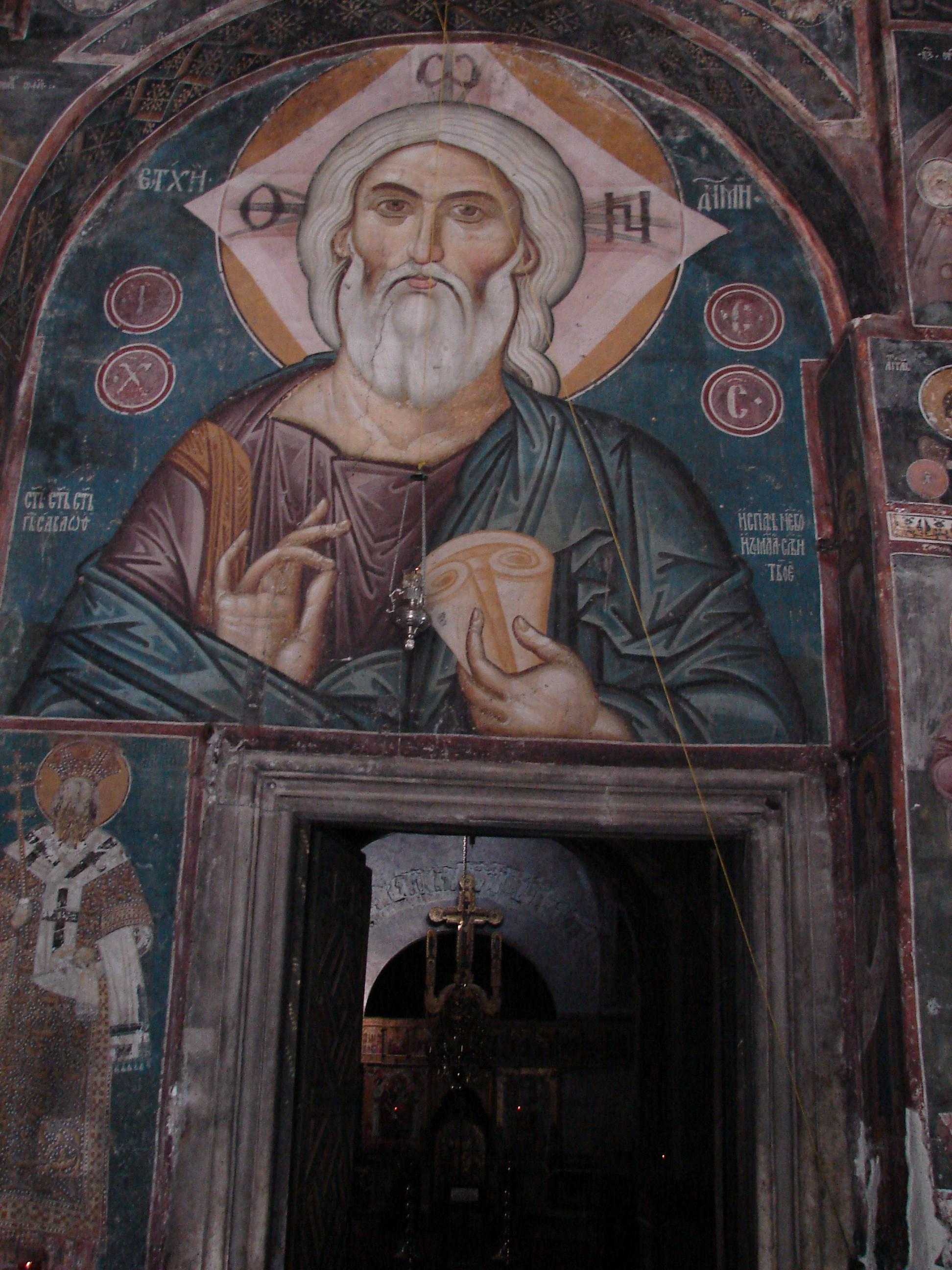 Patriarchate of Peć,interior.